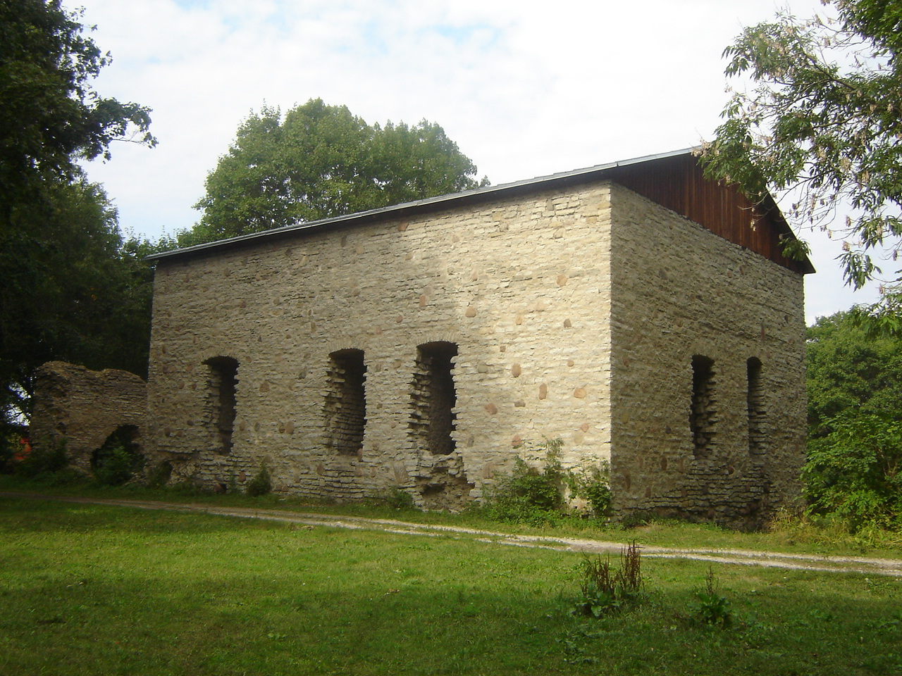 Ruins of Järve vassal castle in Estonia.